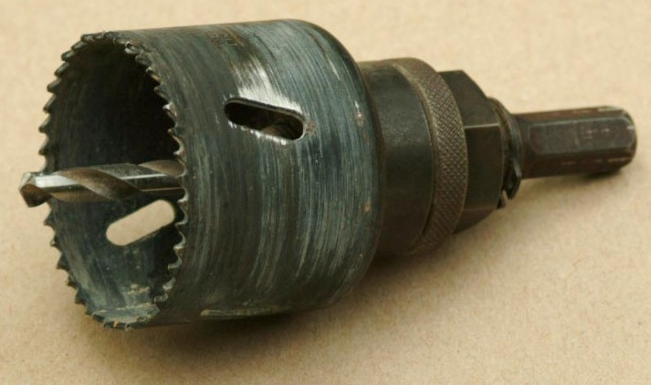 Holesaw. This is a 52mm diameter holesaw for cutting wood and plaster. Tool made by Sandvik, Sweden, about 1990. Photo made UK, 2005.